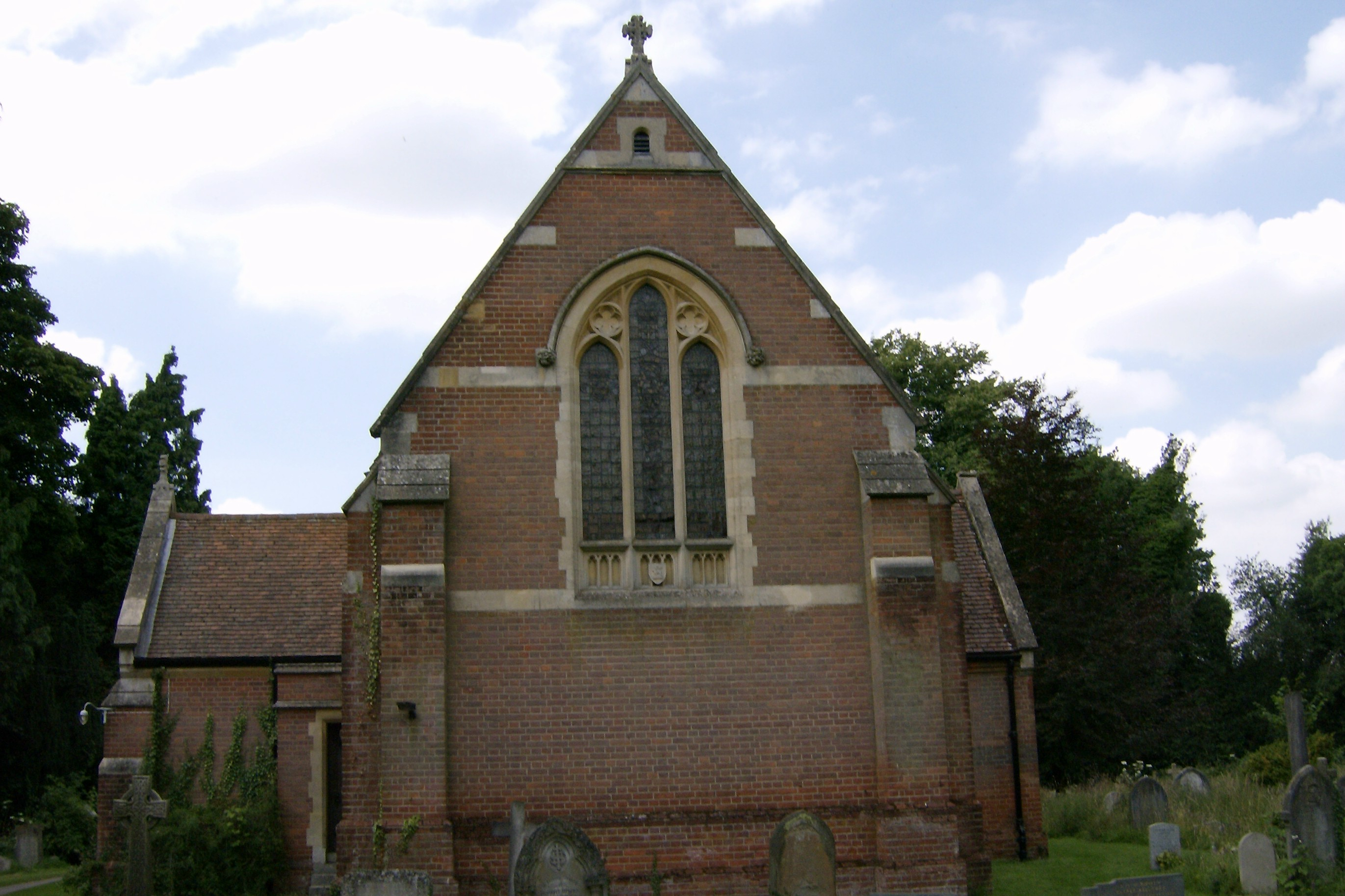 Parish church of St John the Baptist Church, Lee, Buckinghamshire, seen from the east. This is the newer of Lee's two parish churches, completed in 1869.